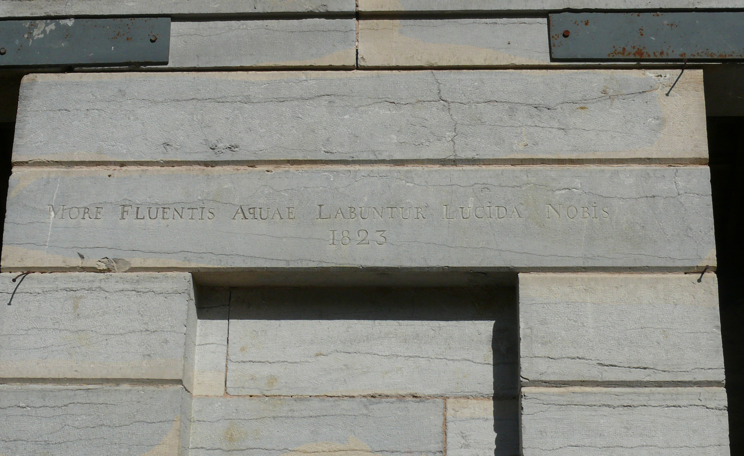 Lavoir of Pennesières (Haute-Saône, France) (1823). Motto : More fluentis aquæ labuntur lucida nobis (Things that are bright for us glide like flowing water)